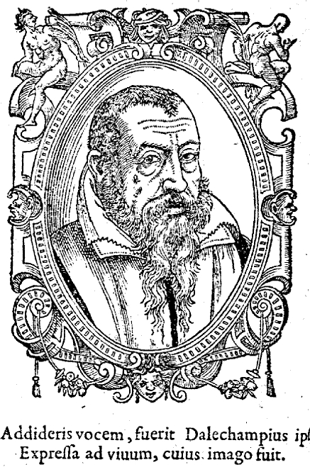 Portrait of physician and author Jacques Daléchamps